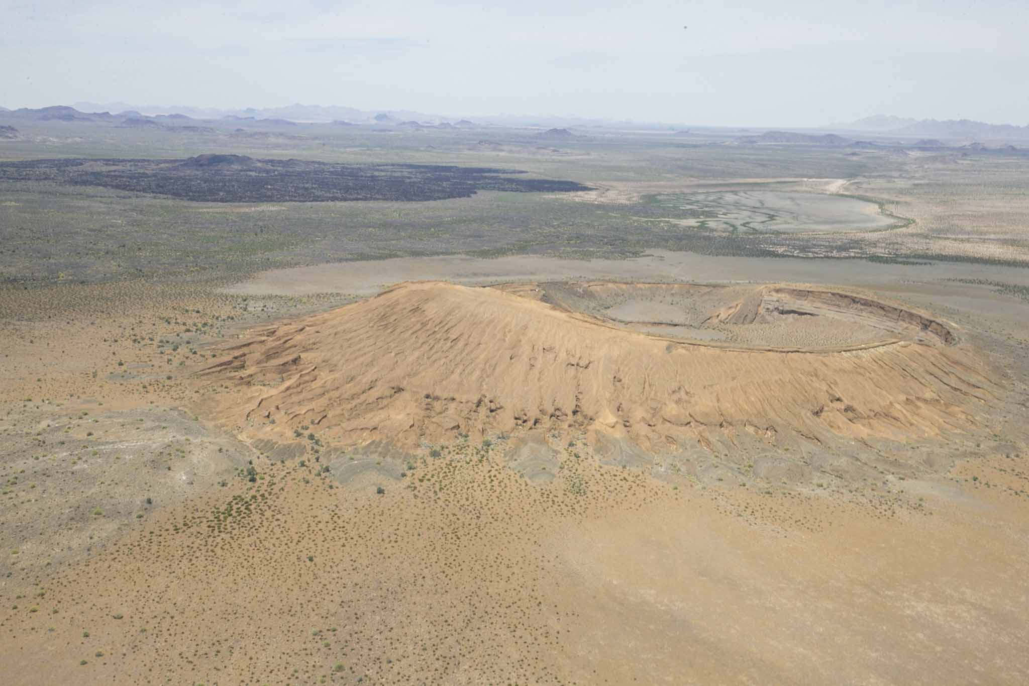 Aerial view of the Reserva de la Biósfera “El Pinacate”